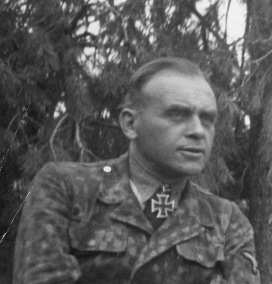 SS-Brigadenführer Jurgen Wagner during a inspection on the Narva front.